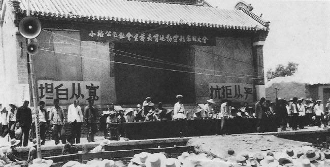 The 1932 photo shows a mass rally scene of communist revolution movement